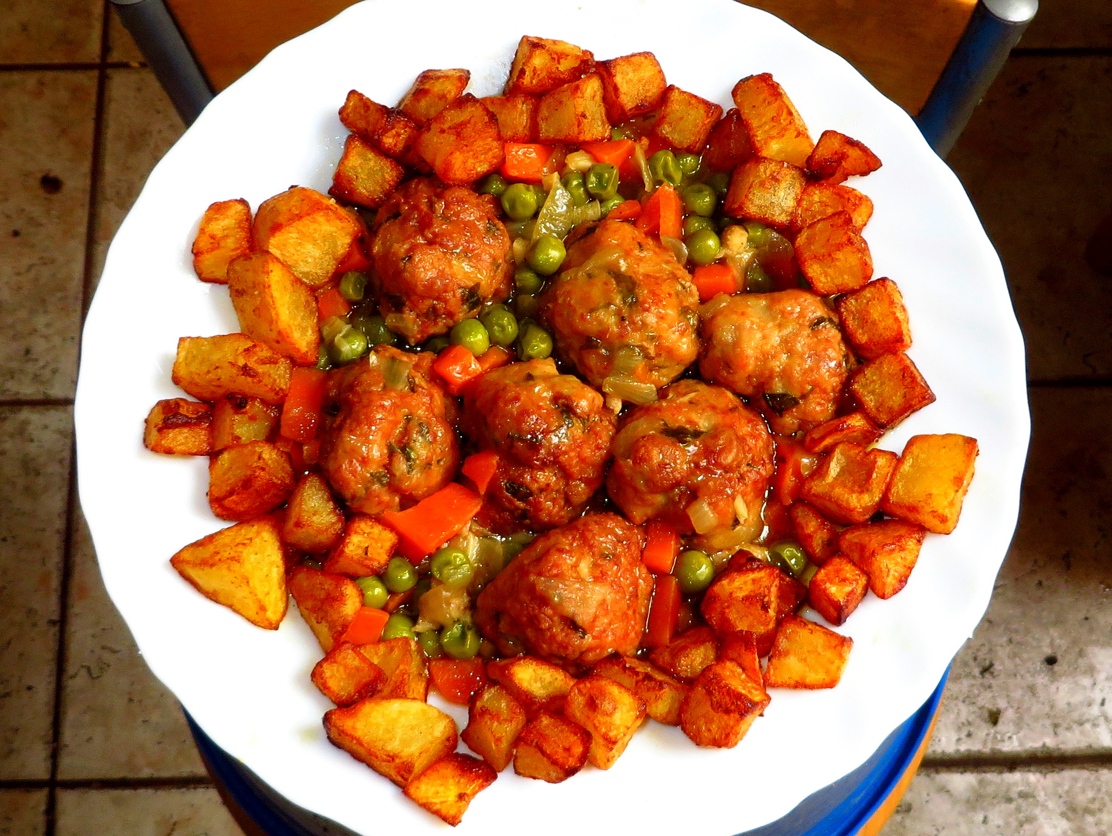 Albóndigas en salsa con patatas fritas. España